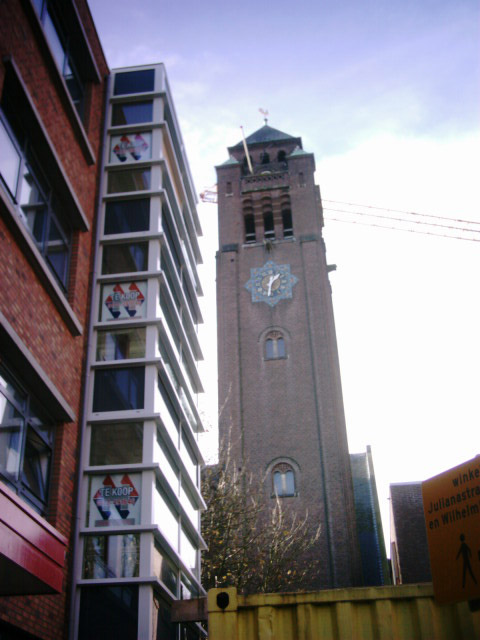 This monumental clocktower stands in the town centre of Alphen aan den Rijn and is built in the latter half of the 19th century. It is one of few buildings that has survived the recent urban renewal masterplan. Photo taken by J. Taihuttu. November 14th 2004